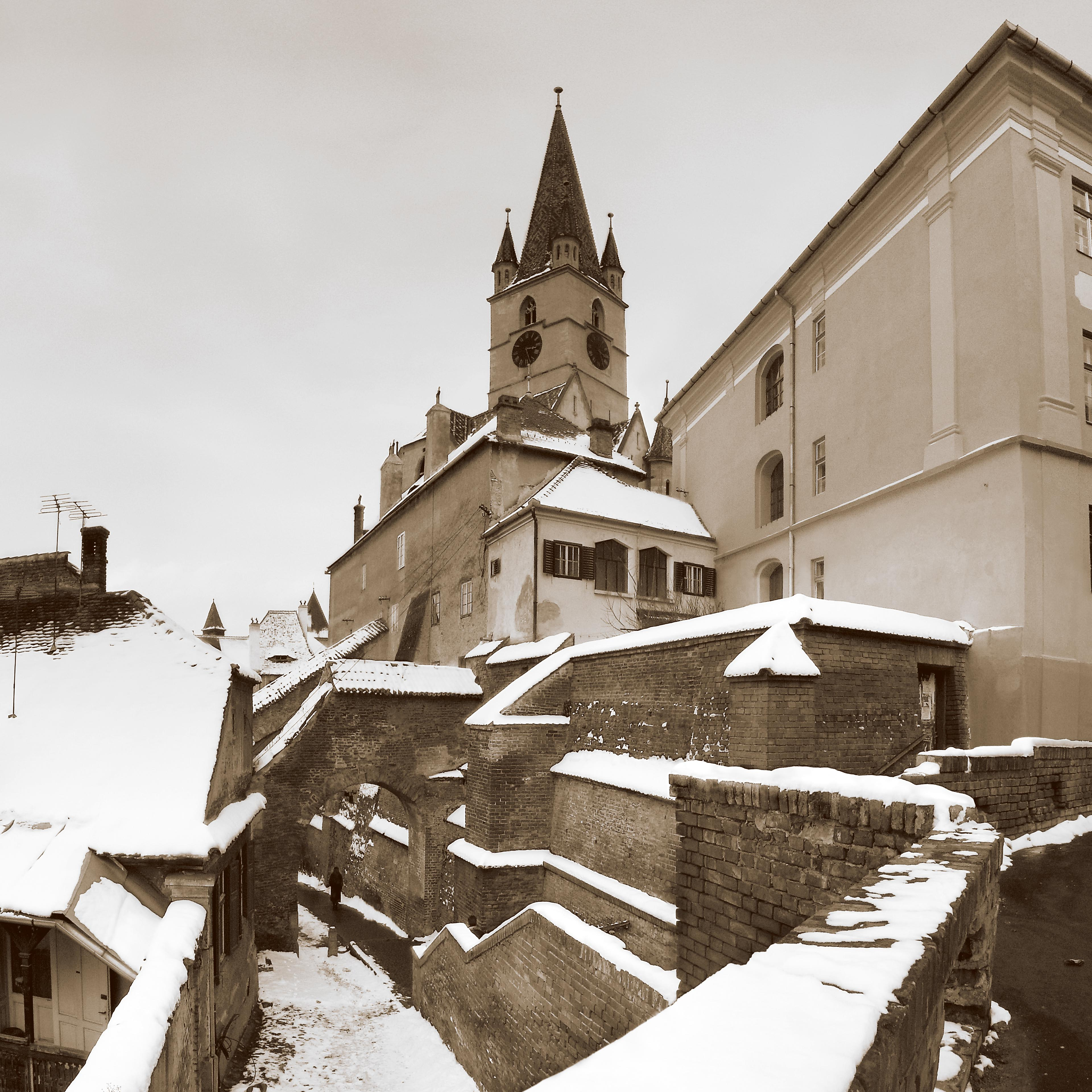 Right beneath the evangelical church and the Bruckenthal Gymnasium, in the center of the old town, is a beautiful passage partially supported by flying buttress. It leads the way between "The Golden Barrel” and the Old Town Hall – today the History Museum.